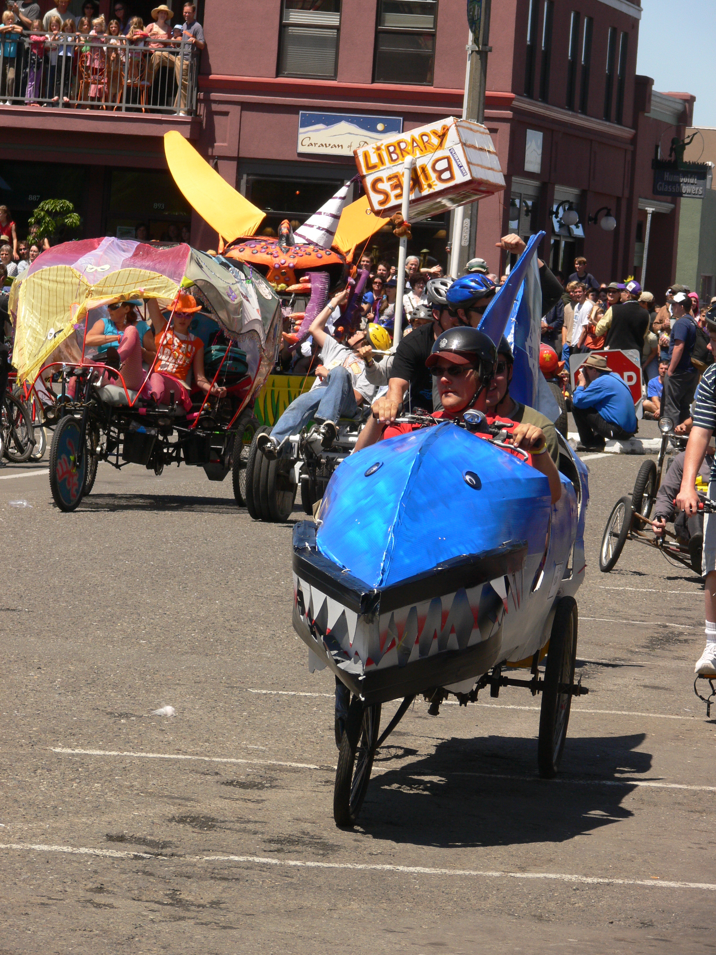 Arcata California. The shark tricycle here from the sculpture race requires some explanation. The sculptures have to be able to go on land and on water. The first leg of the race is through city streets, and the second is across the bay.